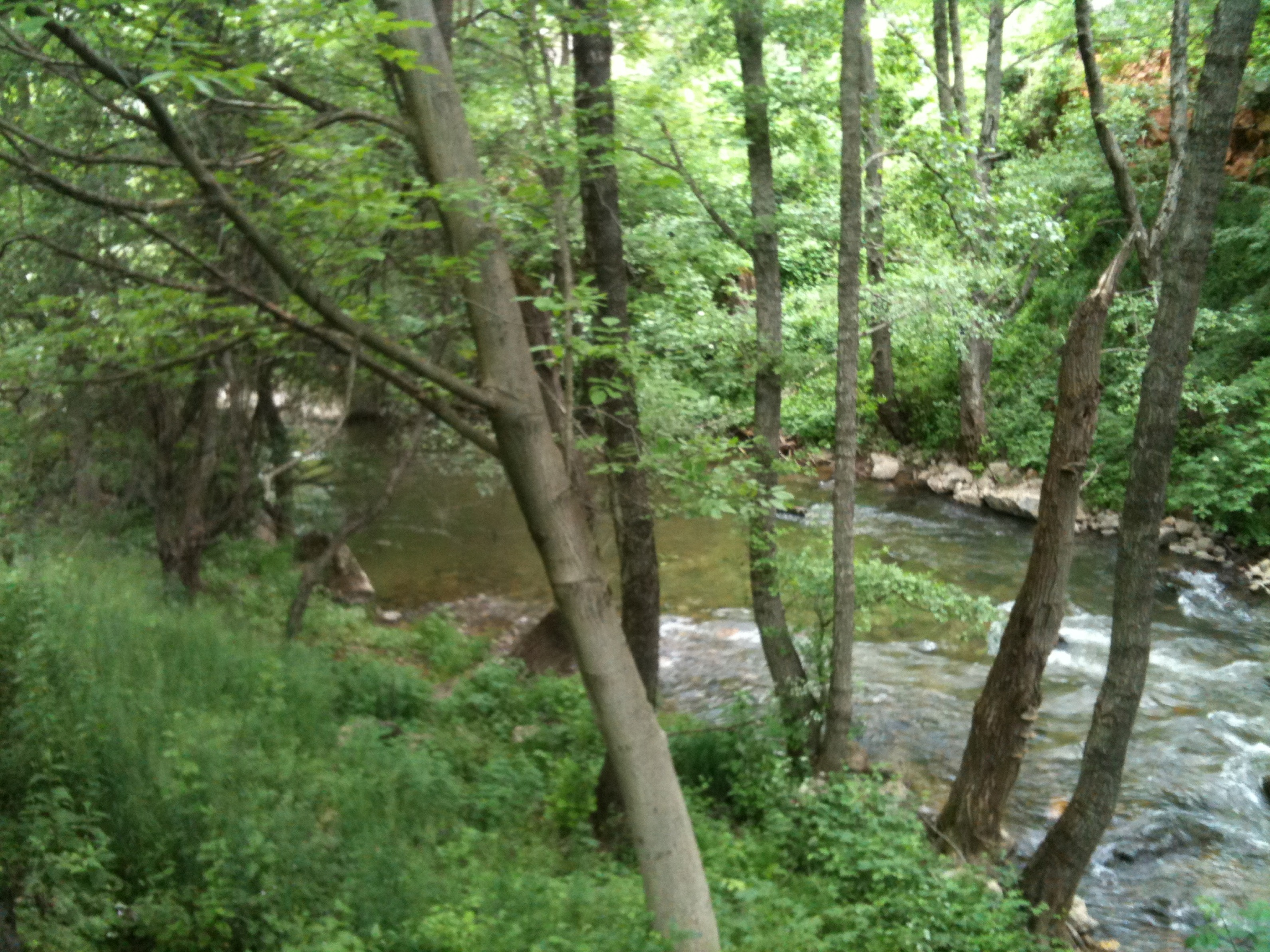 Ladopotamos river near Koromilia, Western Macedonia prefecture, Greece